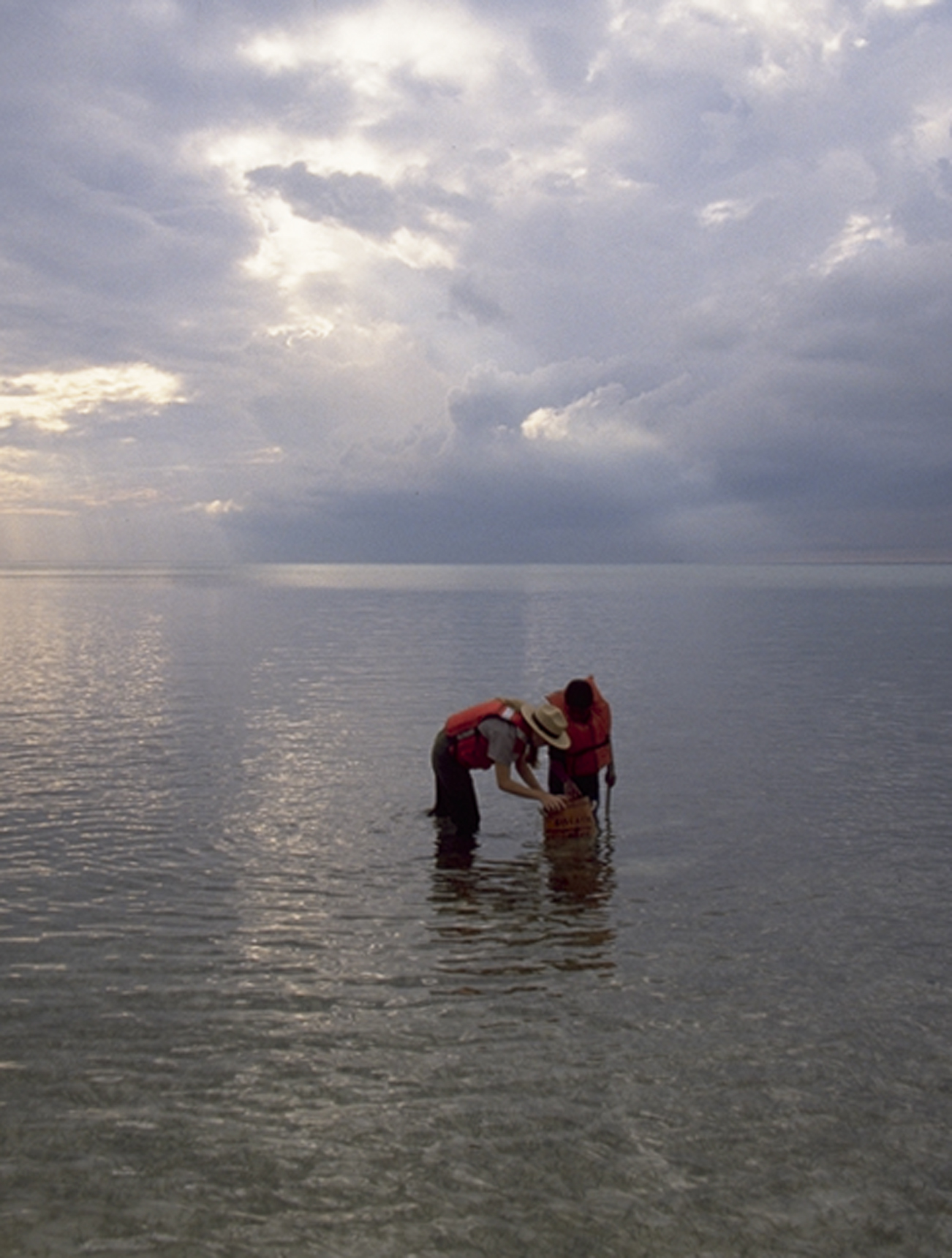 Location Biscayne National Park Description Within sight of downtown Miami, yet worlds away, Biscayne protects a rare combination of aquamarine waters, emerald islands, and fish-bejeweled coral reefs. Here too is evidence of 10,000 years of human history, from pirates and shipwrecks to pineapple farmers and presidents. Outdoors enthusiasts can boat, snorkel, camp, watch wildlife…or simply relax in a rocking chair gazing out over the bay.